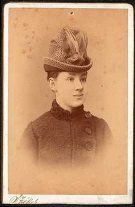 Enrica von Handel-Mazzetti (January 10, 1871 – 8 April, 1955) was an Austrian poet and writer. Known for writing historical romances notably "Die Hochzeit von Quedlinburg".